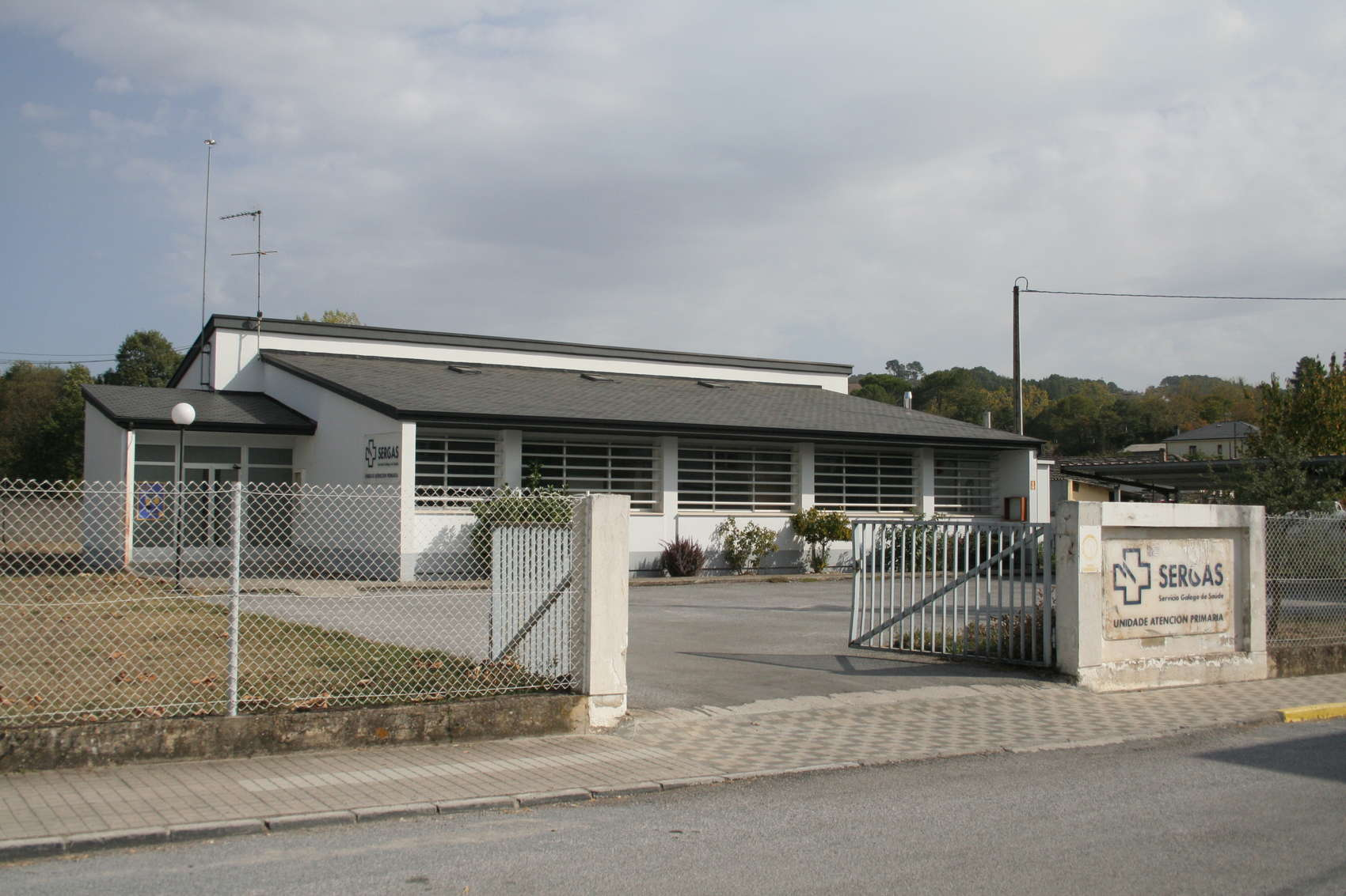 Health Center in A Pobra do Brollón (Spain)